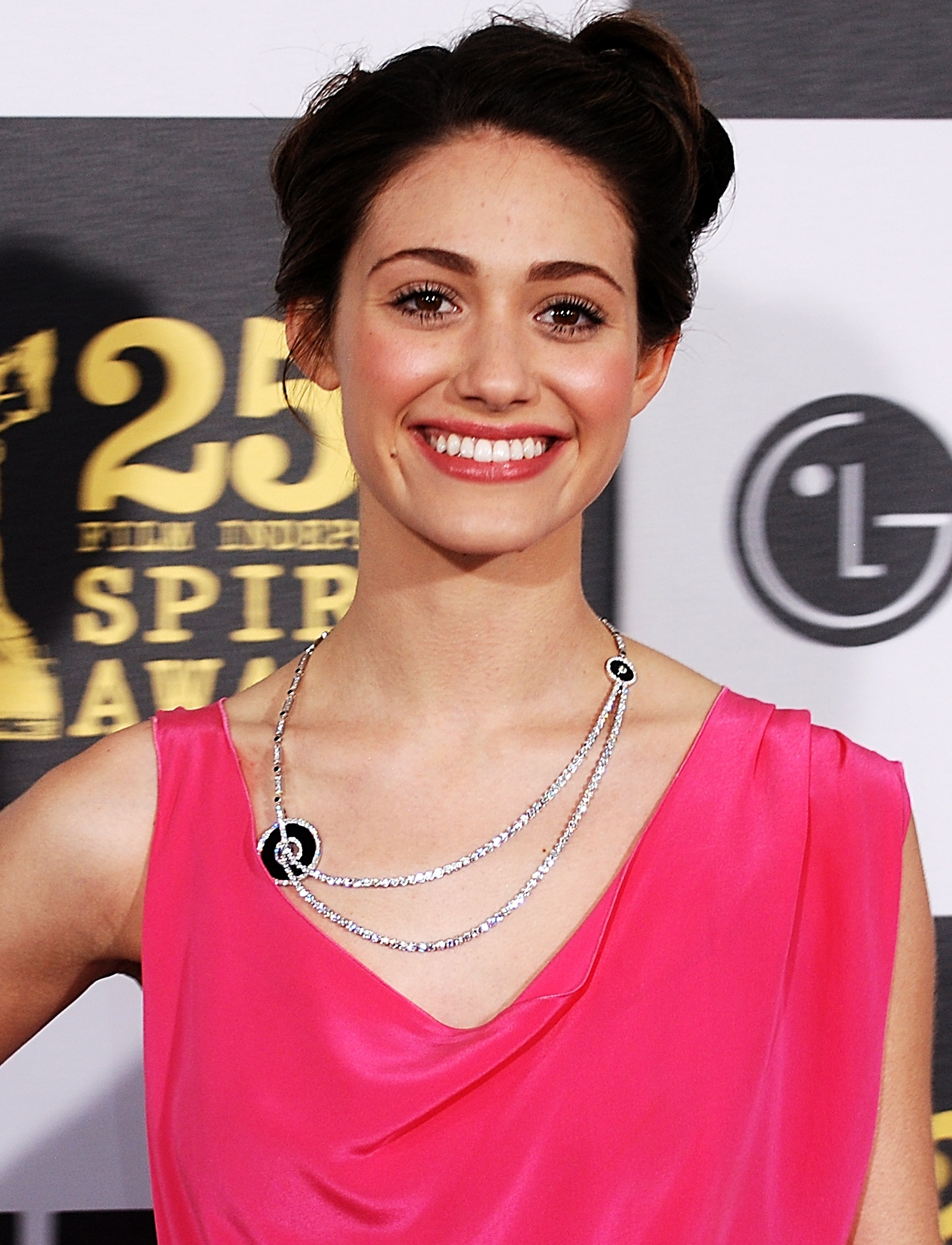 Actress Emmy Rossum at the 2010 Independent Spirit Awards.